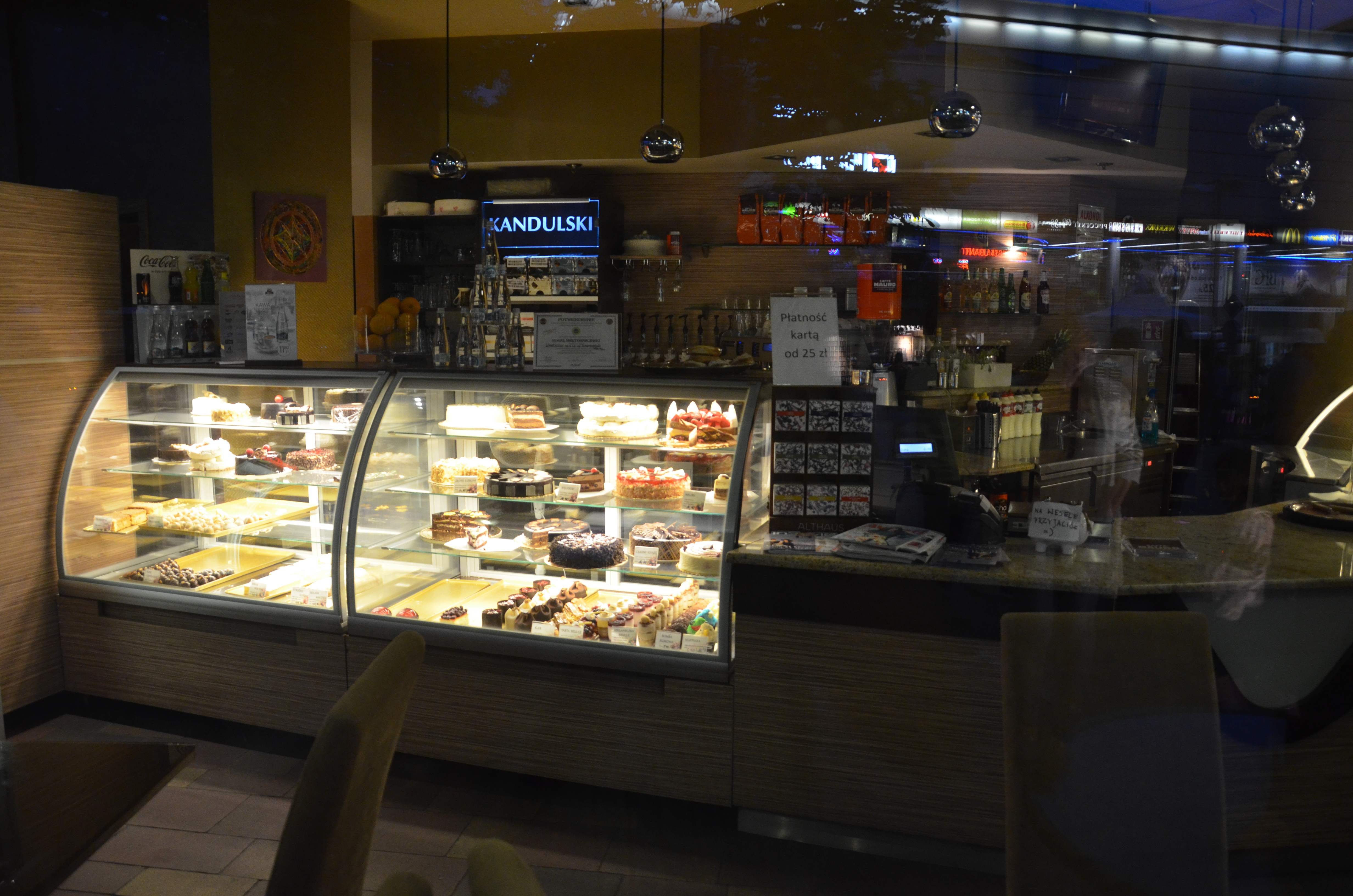 Konditorei-Café Kandulski aus Bielitz, Bolek-und-Lolek-Platz, im Zentrum von Bielsko-Biala